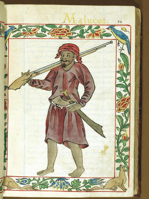 Warrior from Moluccas with a gun